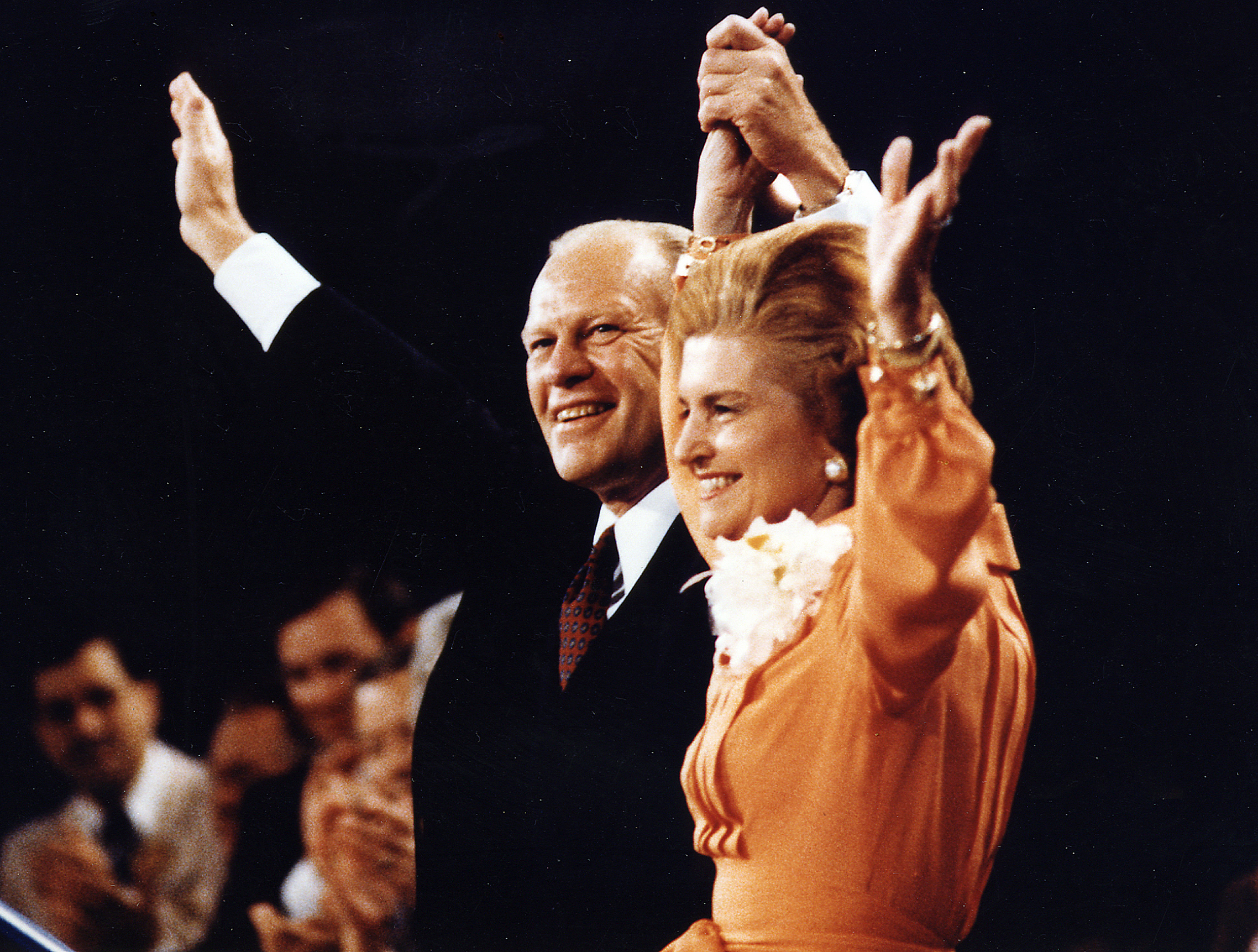 President Gerald Ford and First Lady Betty Ford at the Republican National Convention in Kansas City, Missouri.